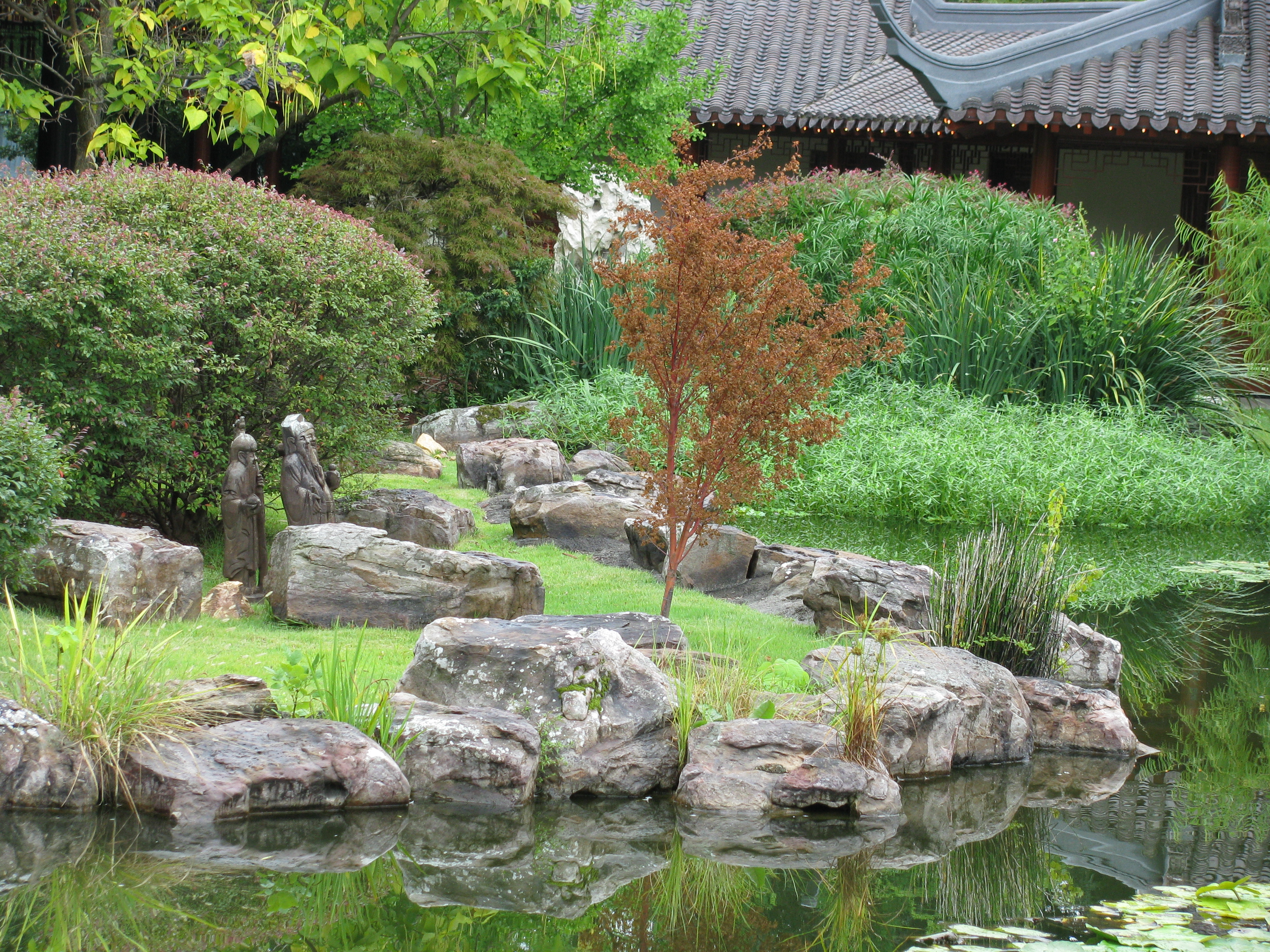 A picture of the interior of the China Exhibit at the Memphis Zoo.